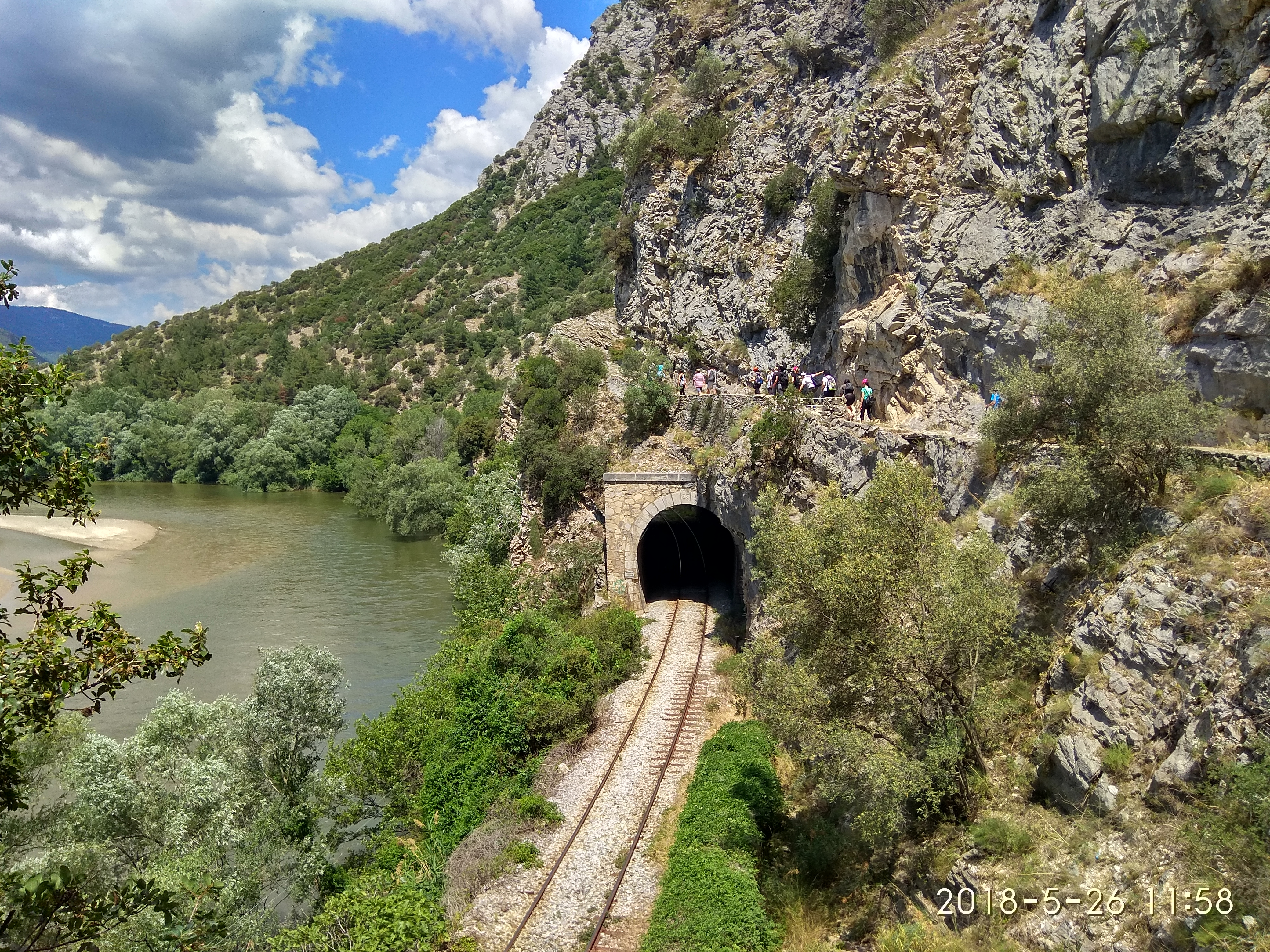 This is a photography of Natura 2000 protected area with ID GR1120004